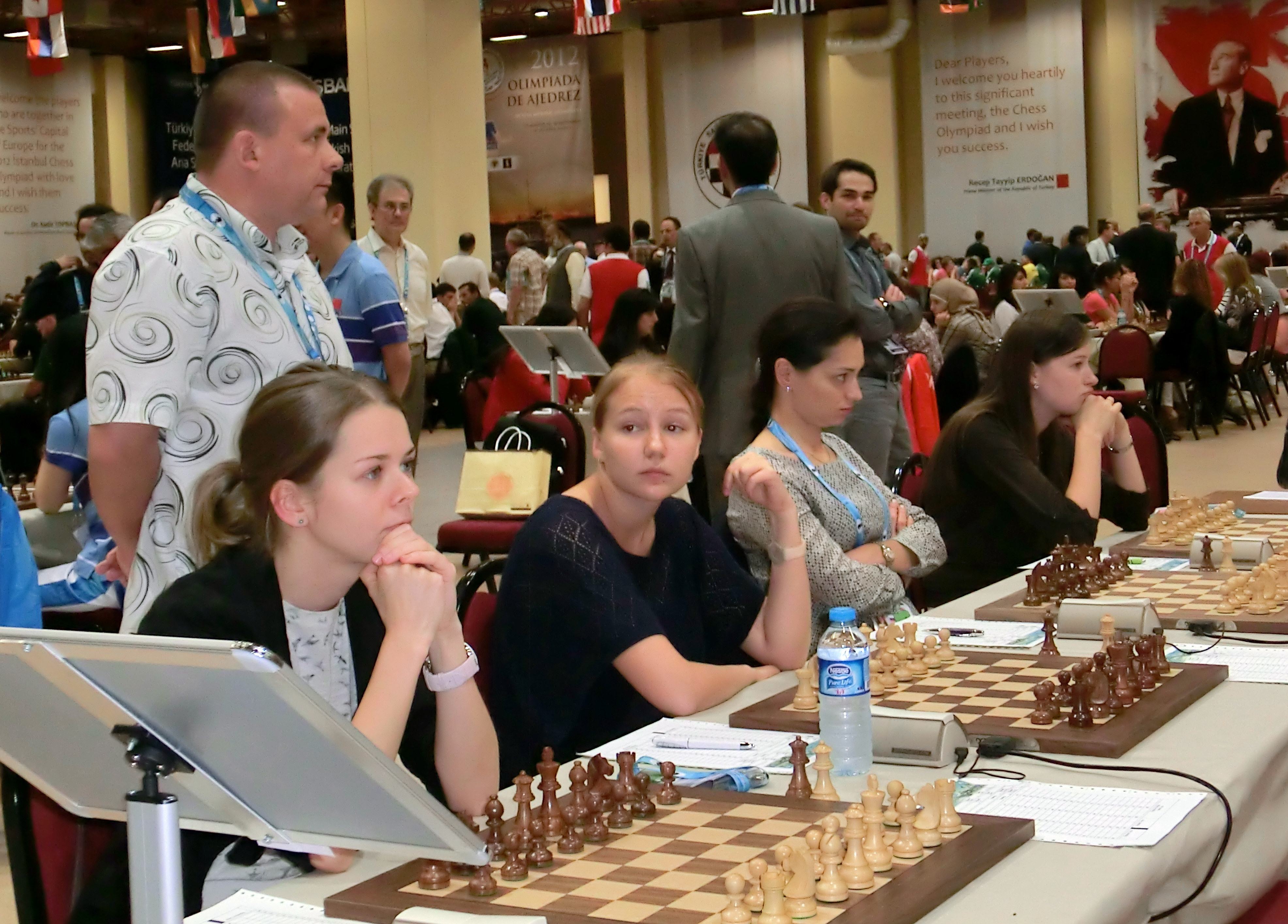 Women's team of Russia during the Chess Olympiad 2012 in Istanbul (T. Kosintseva, Gunina, Kosteniuk, Pogonina)